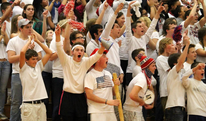 Centennial supporters, or "The Galaxy", cheering on their basketball team at home.